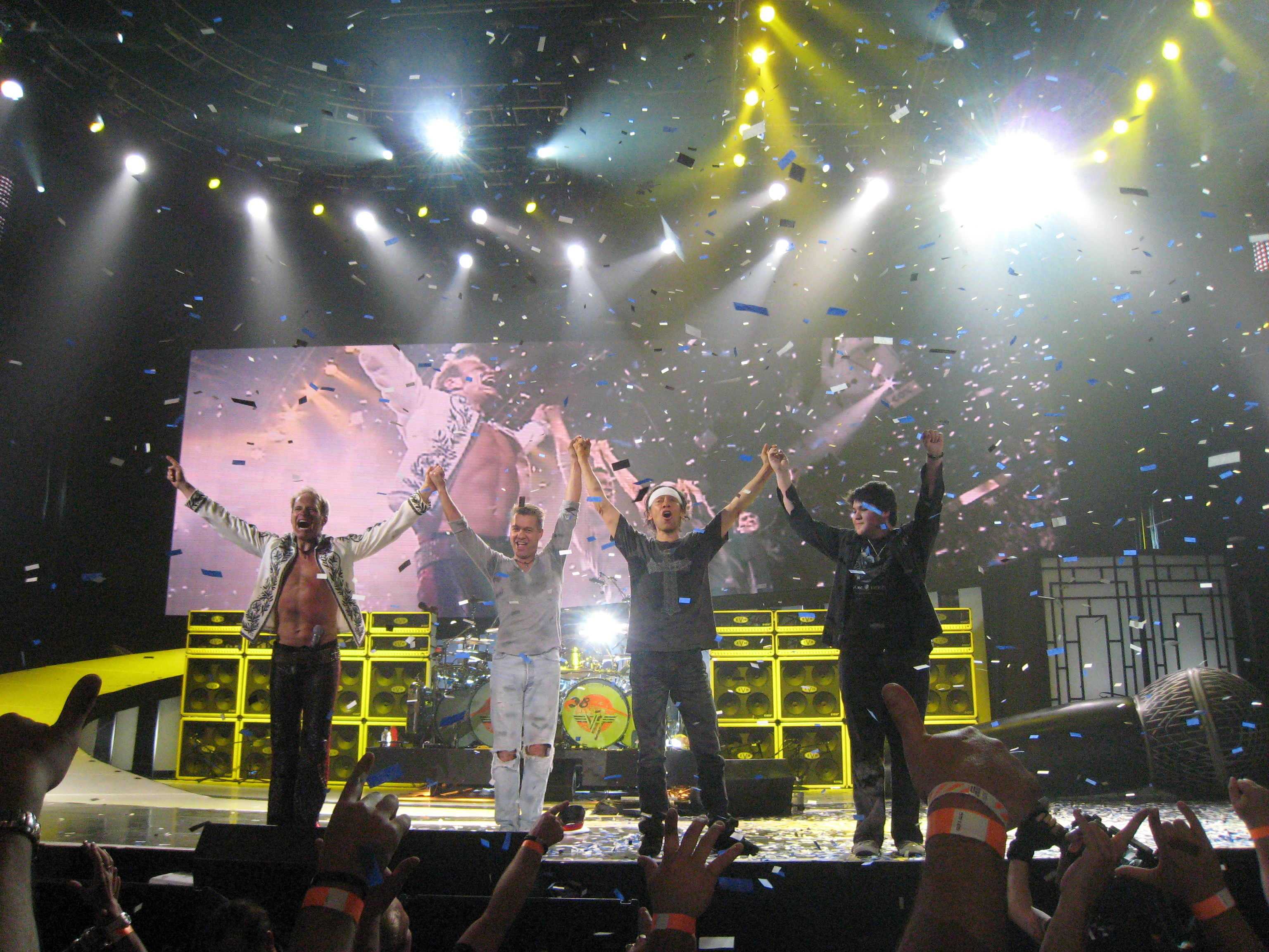 Van halen